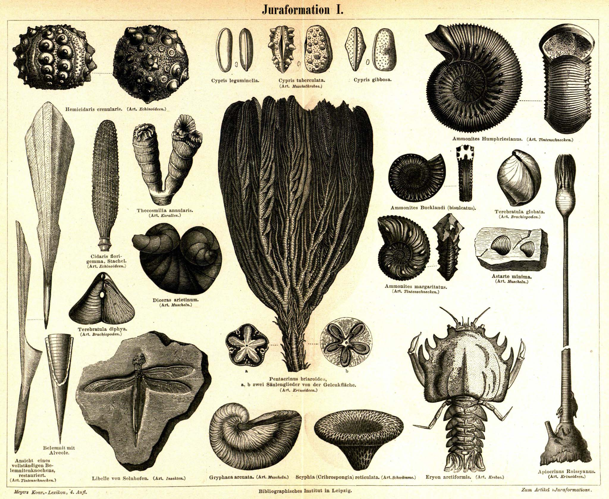 Selected invertebrate fossils from marine deposits of the Jurassic age